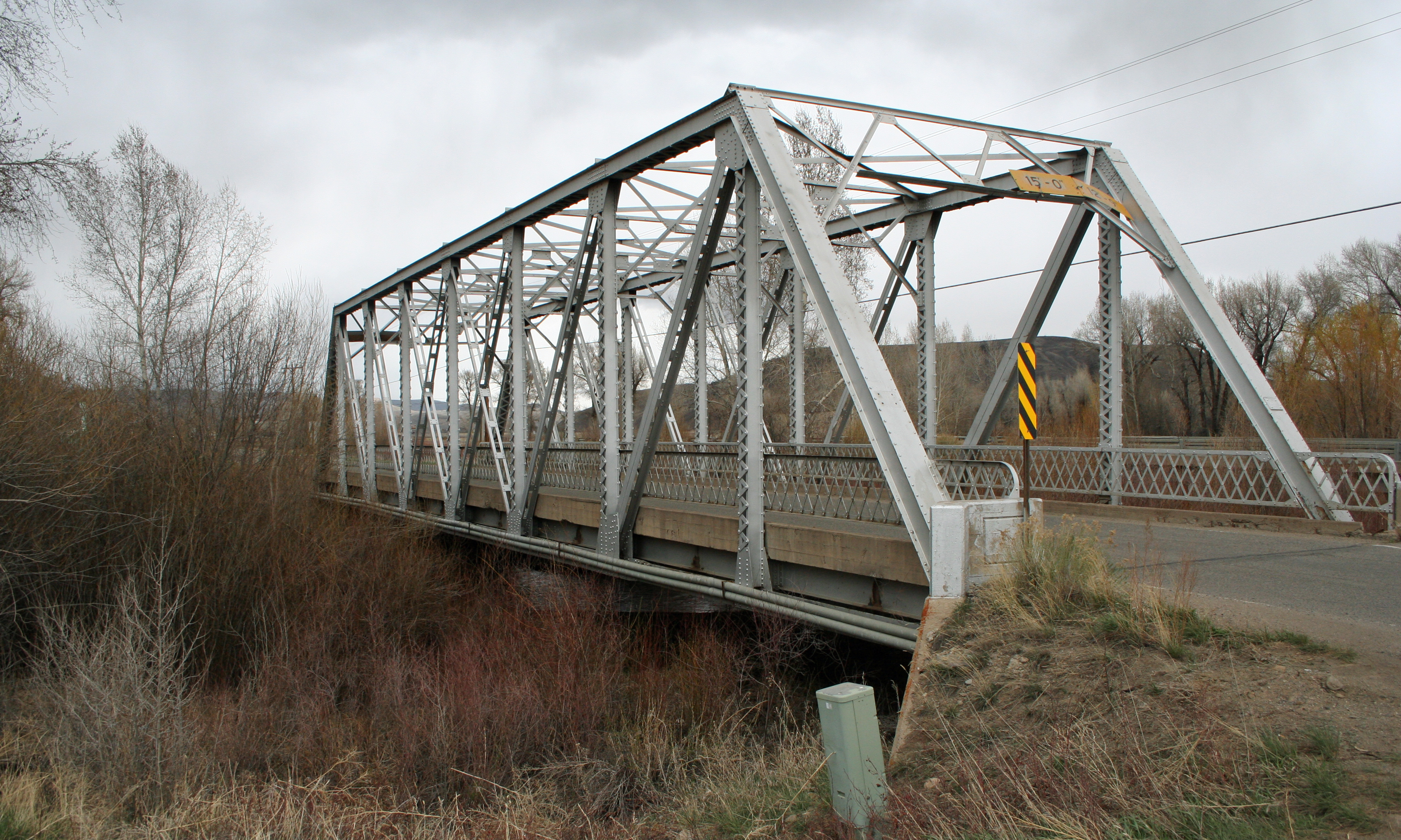 The Gunnison River Bridge I, located in Gunnison, Colorado. The bridge was built in 1927 and now sits on the US Highway 50 Frontage Road.